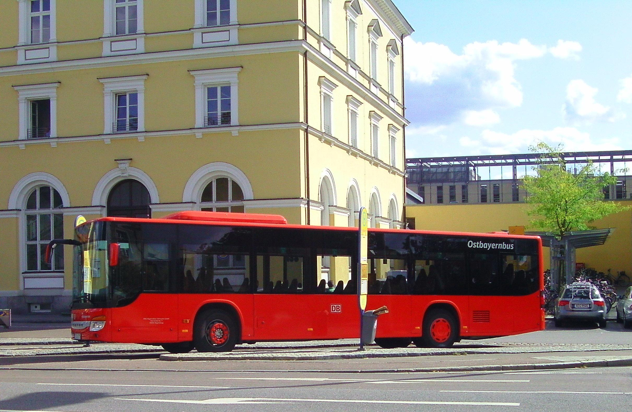 RBO bus in Regensburg